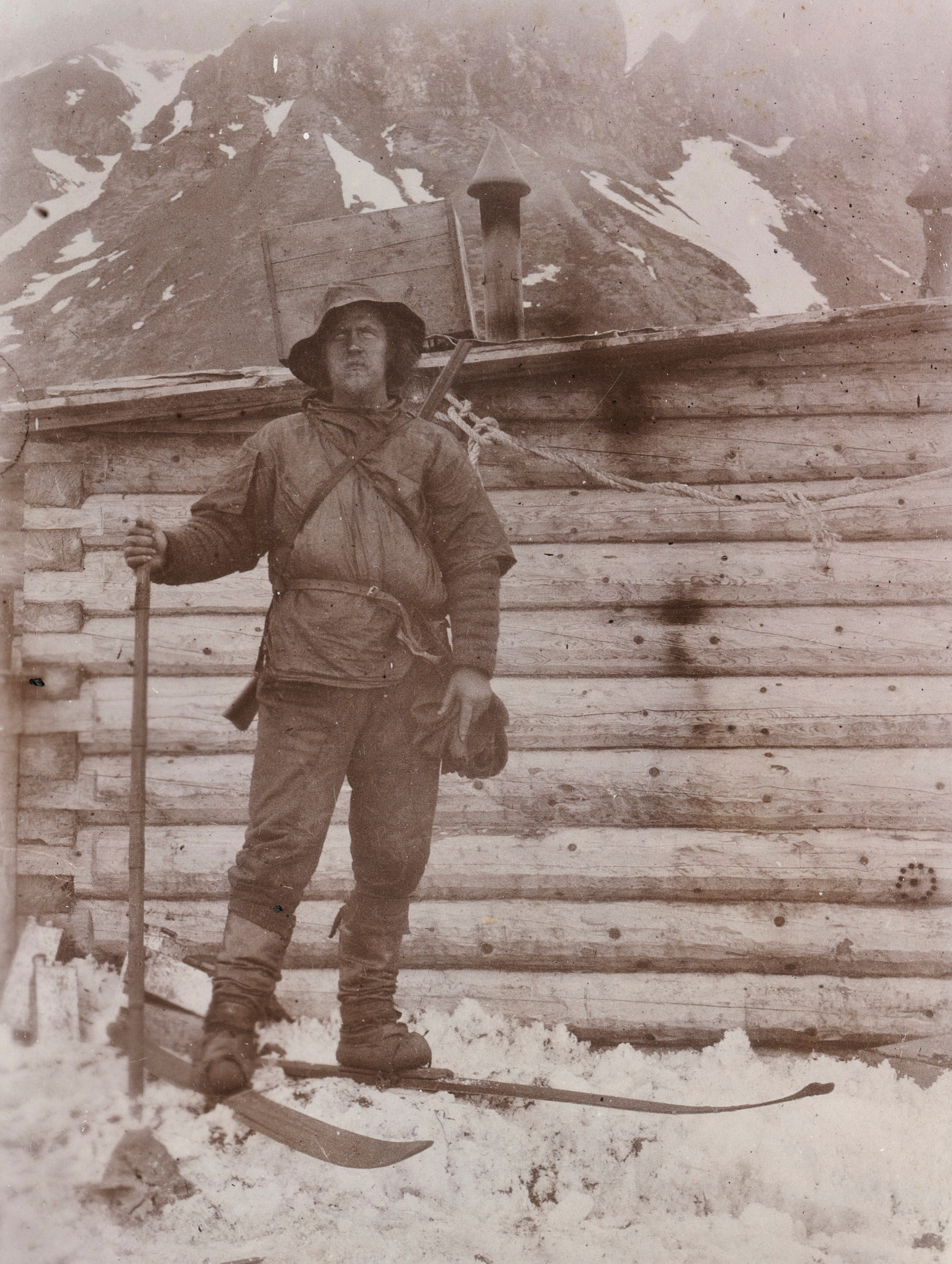 Fridtjof Nansen on skis outside of F. Jackson's cabin in Elmwood. This is how he looked when he unexpectedly ran into F. Jackson. One of the pictures from the expedition with arctic ship toward the North Pole in the period June 24, 1893 to August 13, 1896. According to the plan, the ship was to drift in the ice with the ocean current from the coast of Siberia across the North Pole to Greenland. In March 1895, Fridtjof Nansen, together with a companion, set out with dogsledges on a hazardous expedition on skis, in an attempt to reach the pole itself.